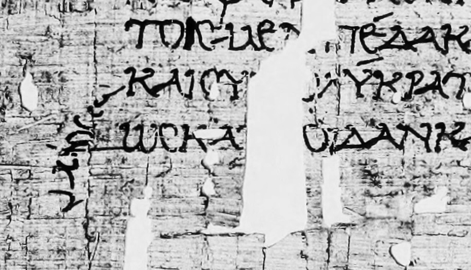 A late-2nd or early 1st century BCE papyrus of Ibycus with a coronis likely showing the end of a book